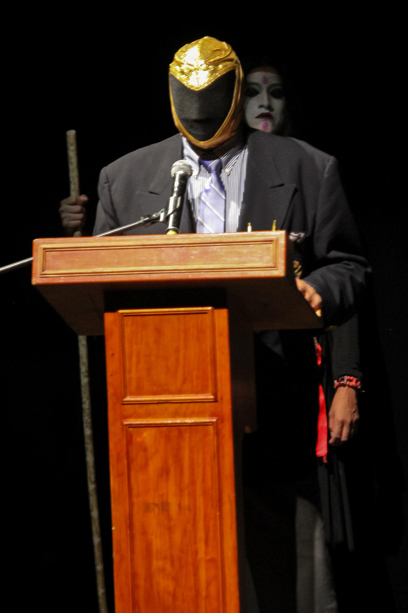 Professional wrestler Manuel Leal Peña, a.k.a. Tinieblas. Photographer: Jose Luna / Secretaria de Cultura CDMX.